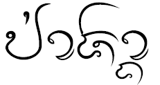 Lanna script – Pa Sang is a district (amphoe) of Lamphun Province, northern Thailand.